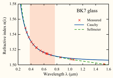 SVG version of Image:Cauchy-equation-1.png. By Bob Mellish. SVG version of Image:Cauchy-equation-1.png. By User:DrBobBob Mellish.